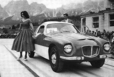 The new Lancia Appia at Concorso d'Eleganza in Cortina d'Ampezzo on 27 July 1956. It is white and blue color and had the nickname "cammello" due to the "double bubble" design of the roof and trunk lids. (See same event/car in this video)